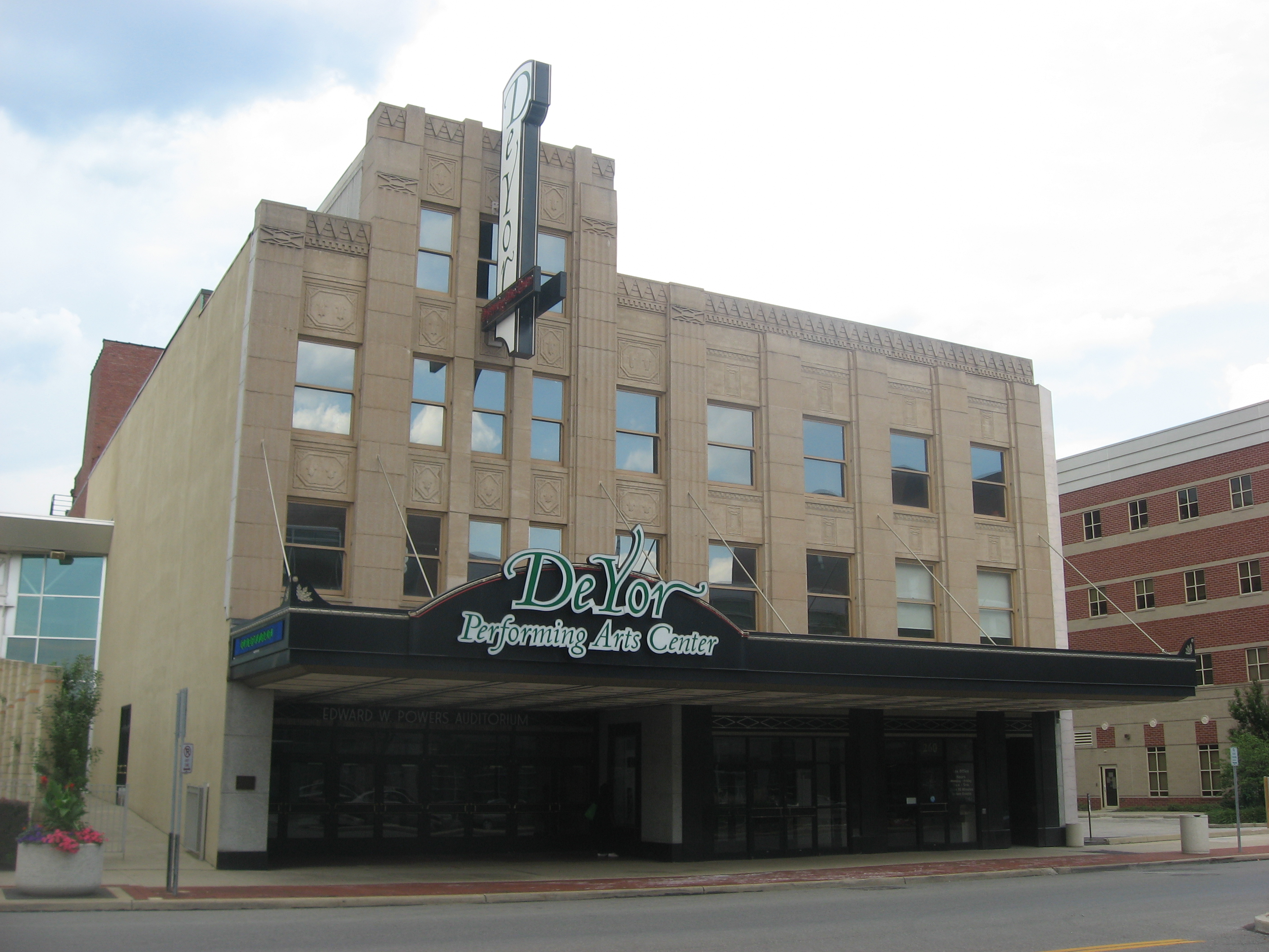 Front of the Warner Theater, located at 260 W. Federal Street in downtown Youngstown, Ohio, United States. Built in 1930, it is listed on the National Register of Historic Places.